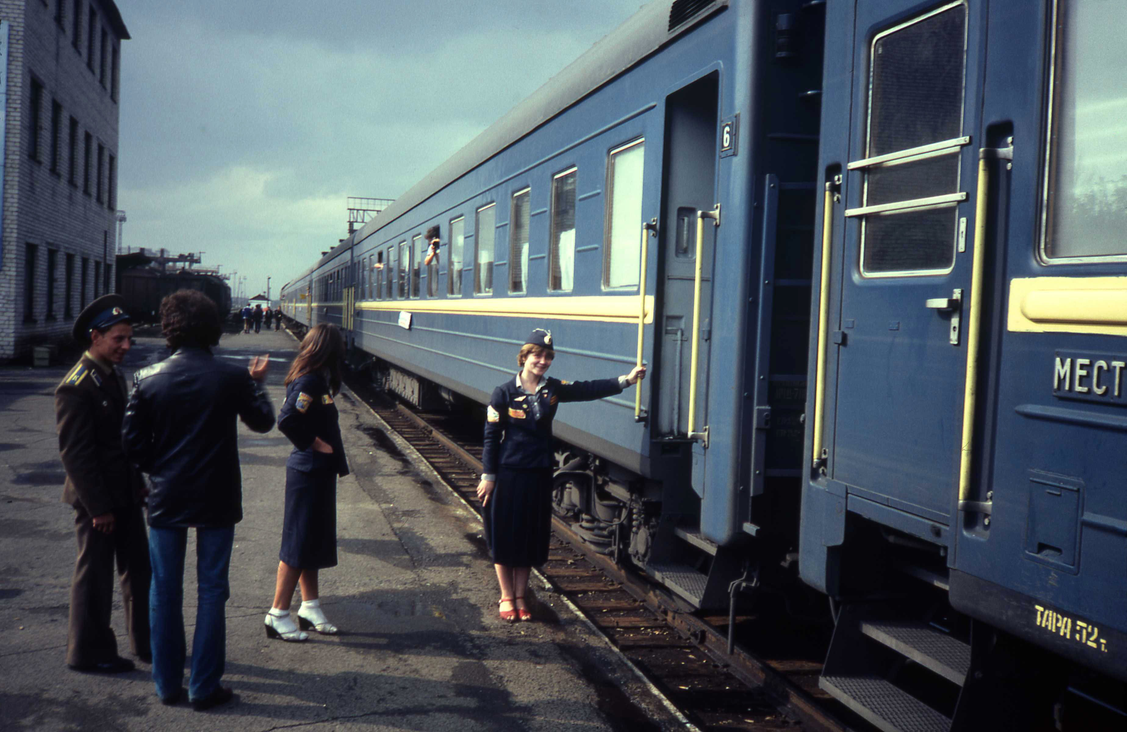 Stops with the BAIKAL, Irkutsk - Moscow train in 1982. Train attendants by the door.